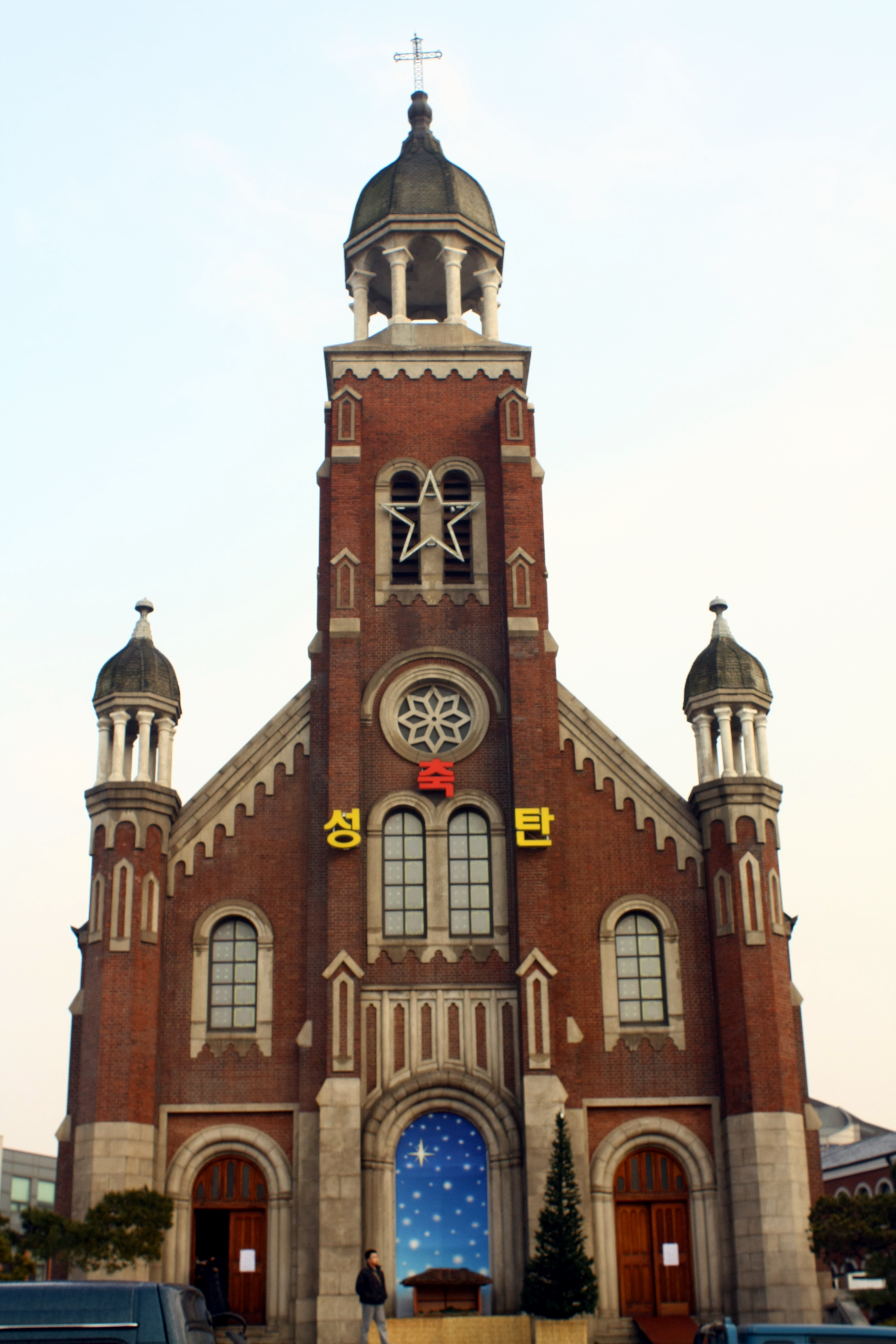 Dapdong cathedral